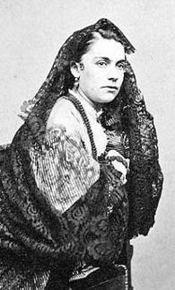 A young white woman posing in a costume of dark fabric and lace; she has dark hair.